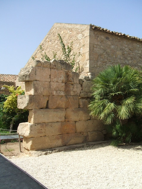 Camarina archaeological site : Temple of Athena, erected wall (probably reconstructed)